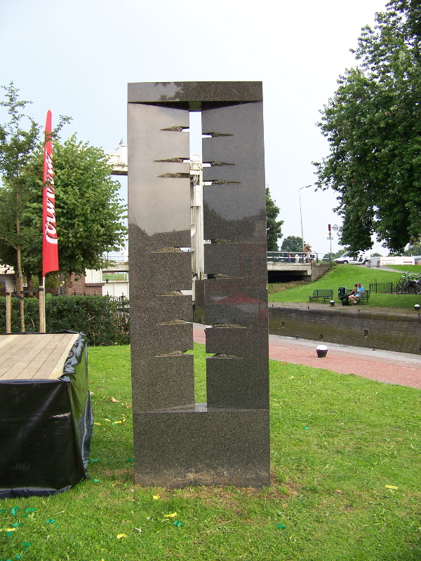 Artwork Locks in Gouda